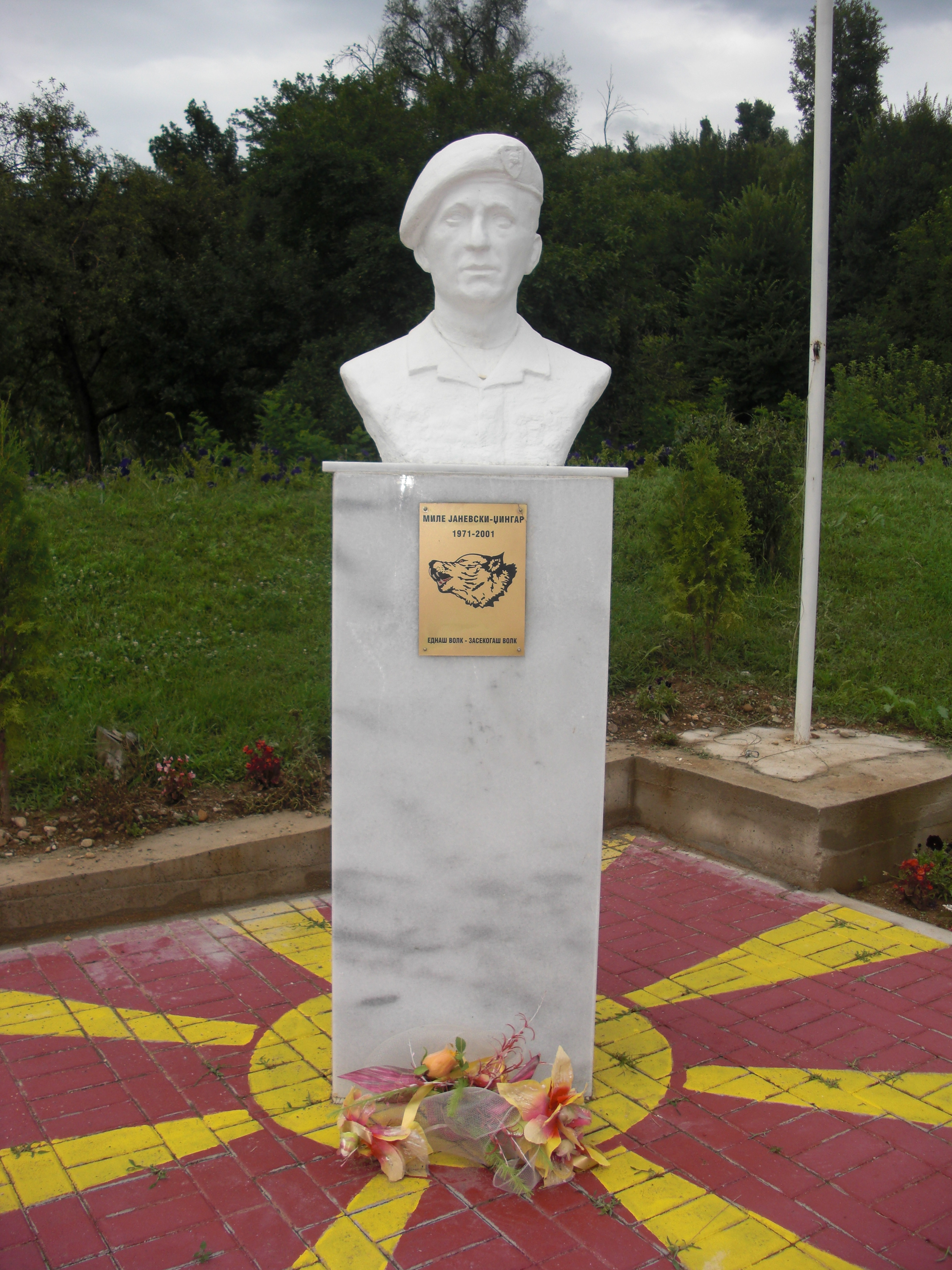 Bust dedicated to Mile Janevski - Dzingar in Makedonska Kamenica, a fallen soldier of the Macedonian army during the 2001 conflict in the country